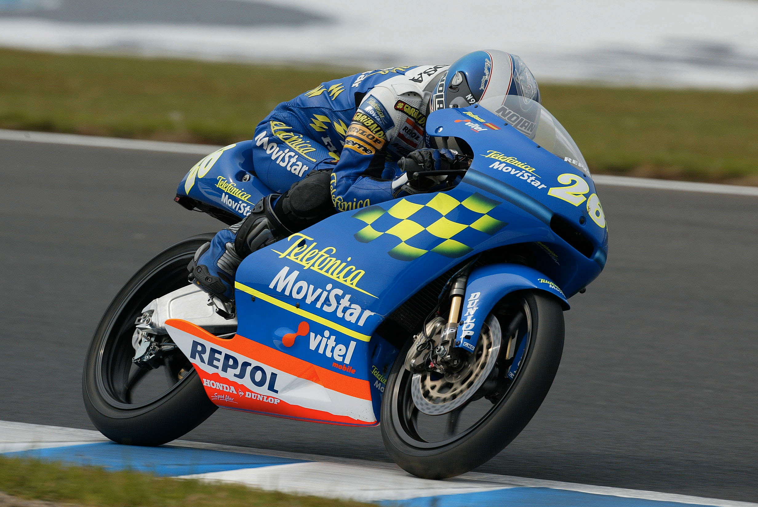 Dani Pedrosa, riding his 125cc Telefónica Movistar Honda at the 2002 Pacific Grand Prix.